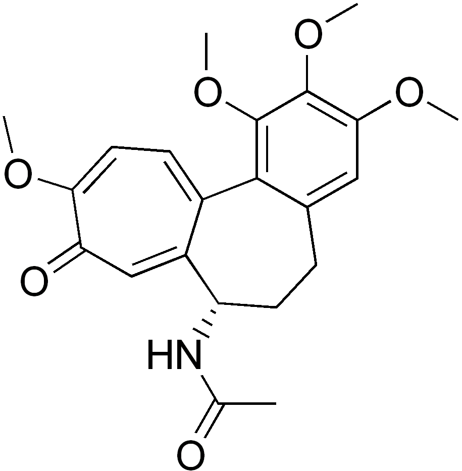 Chemical structure of colchicine created with ChemDraw.